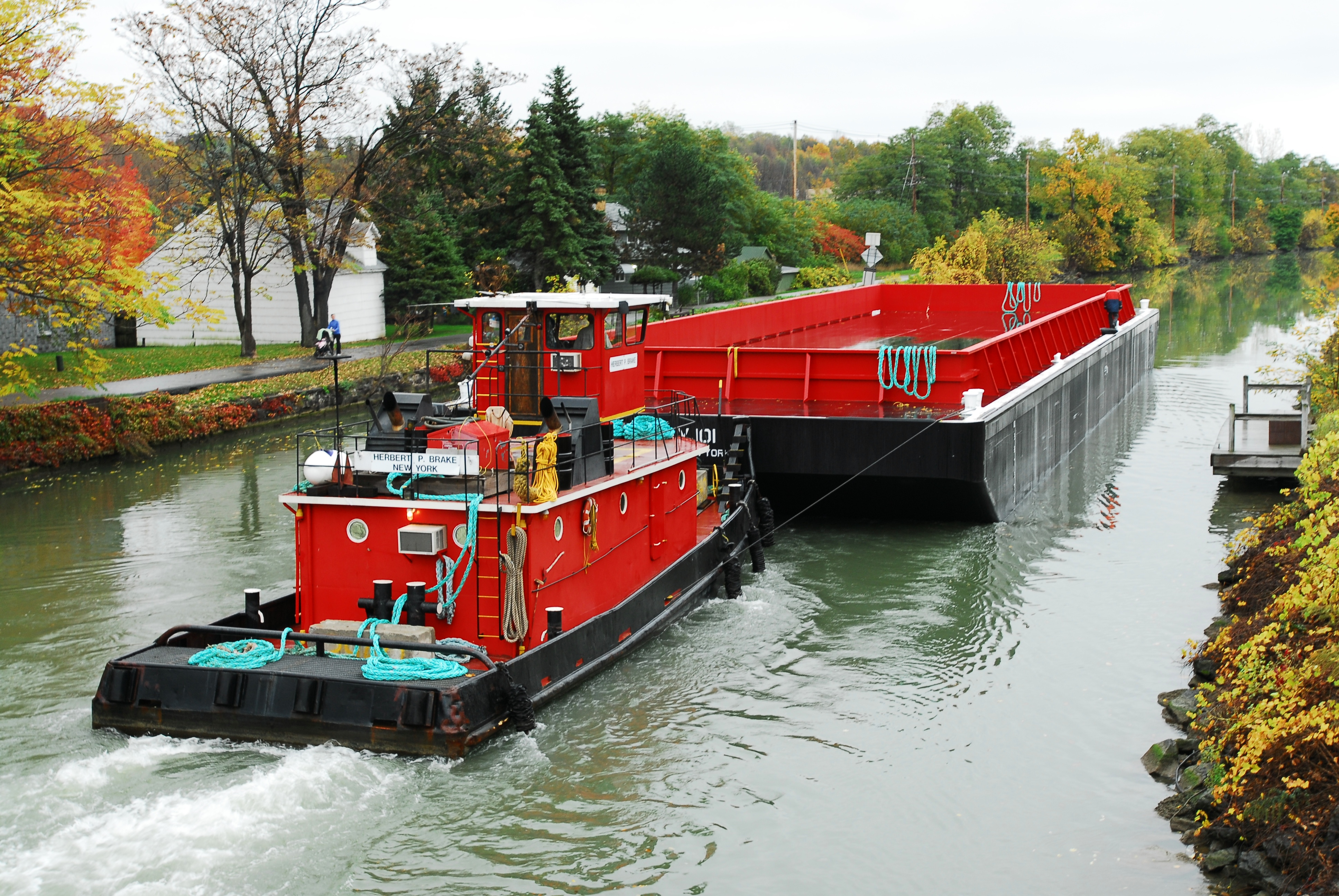 The tug, Herbert P. Brake, of New York, pushes a new barge East on the Erie Canal in Fairport, NY on Saturday morning, October 27, 2007.